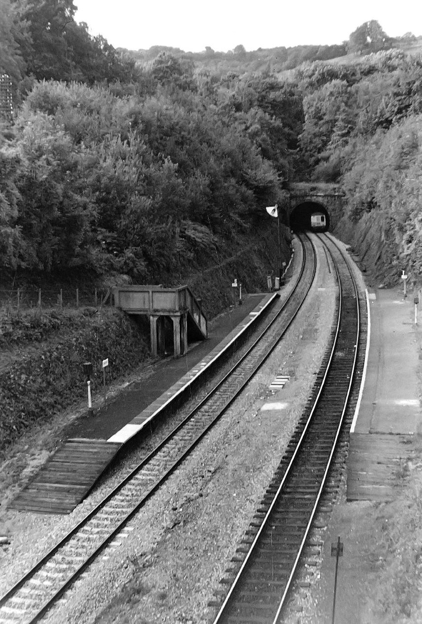 The now closed Cefn On halt as seen from the demolished footbridge. This view also shows the southern portal of the Caerphilly Tunnel. And interesting to see the white quadrant behind the 'distant' signal aiding visibility for the train drivers. A train from Caerphilly is just leaving the tunnel. The halt was ony three coaches long. If the DMU was in a six car formation you had to travel in one of the front three coaches to be able to get off here.